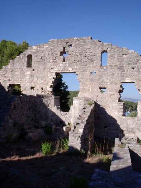 The ruins of roman basilica in Polače, Mljet, Croatia